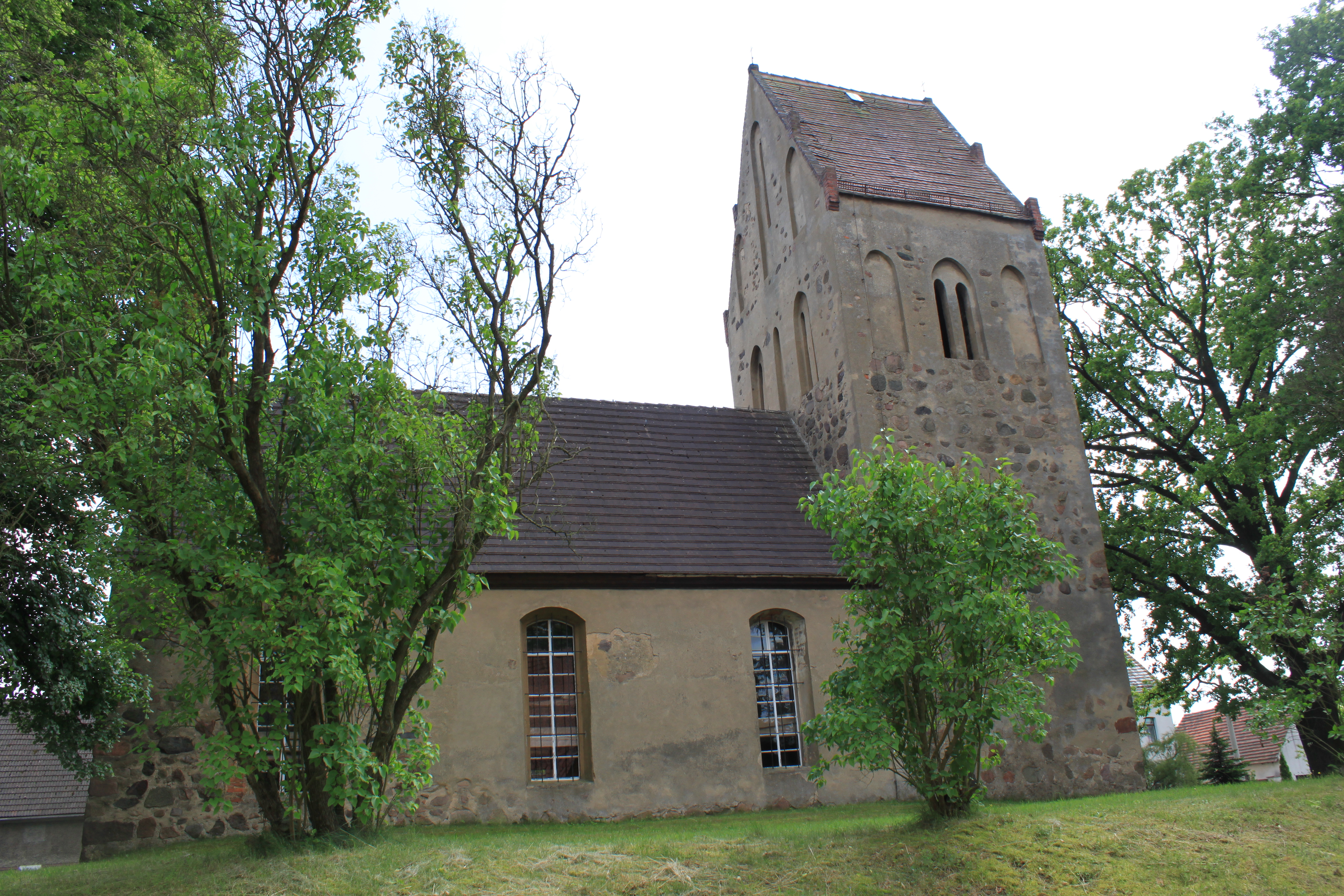 Proßmarke